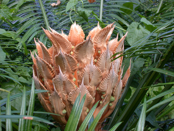 megasporangia (female cone) photo by Thomas Marler